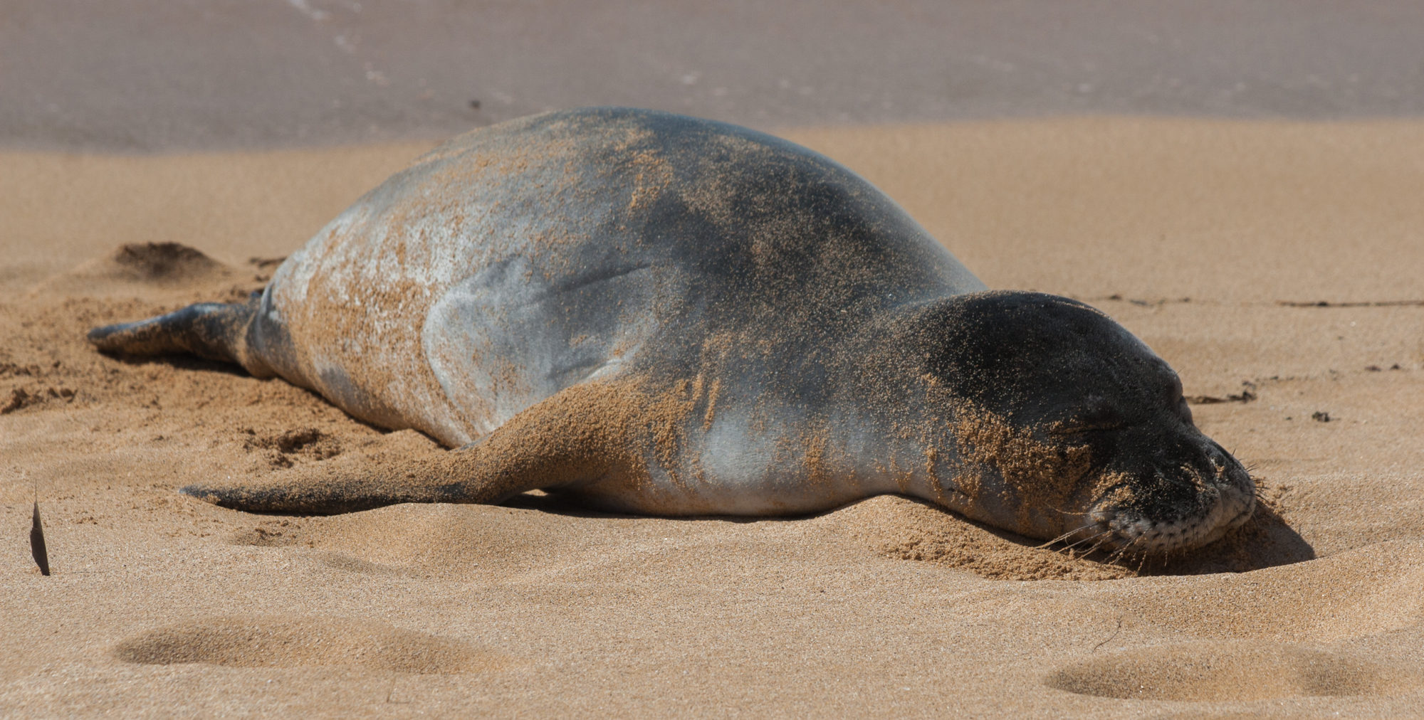 Beached seal on Poipu Beach